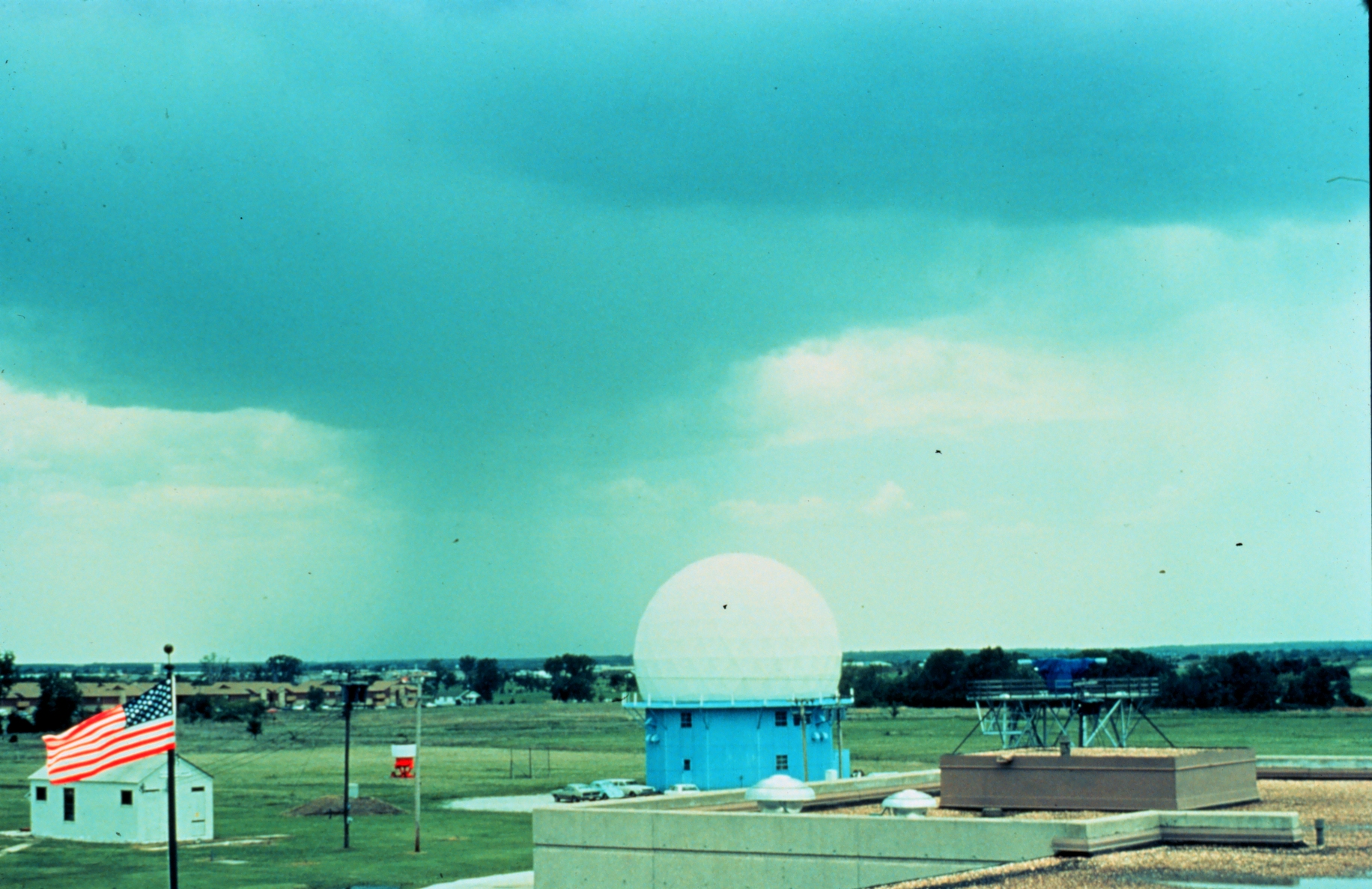 NSSL Doppler with rainshaft nearby. If you don't believe the radar, look out the window.